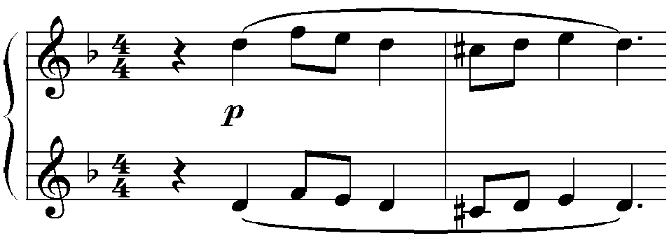 Rachmaninovs 3rd piano concert, after the orchestral introduction comes the piano with the famous melody that starts like this